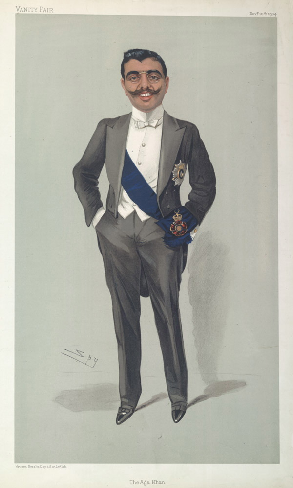 Men of the Day No.938: Caricature of The Aga Khan III (1877-1957).. Caption reads: "The Aga Khan"